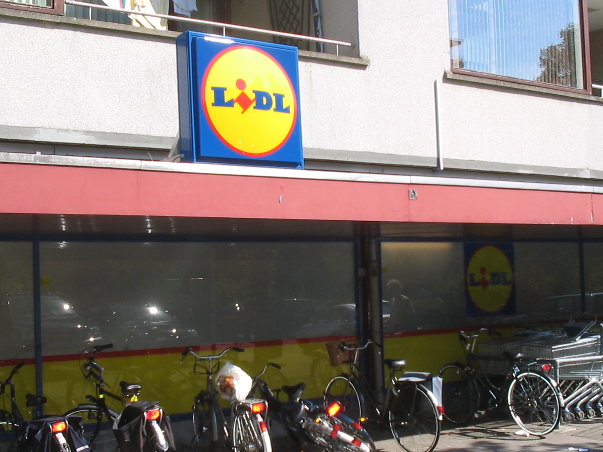 Lidl supermarket, Delft, Netherlands, Aug. 2005